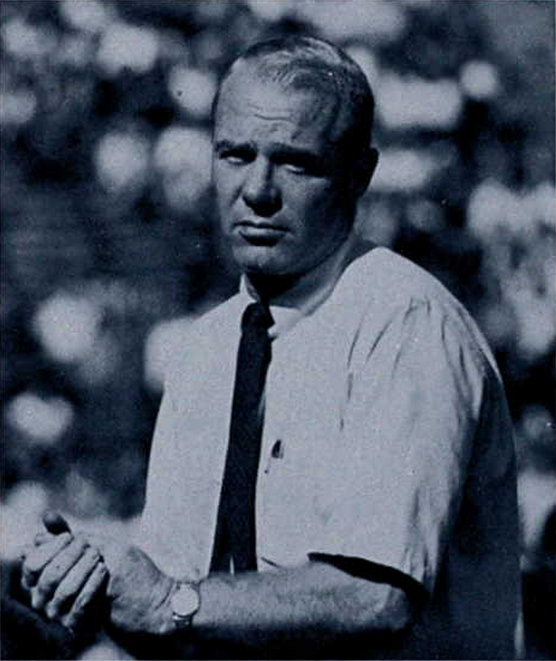 Photograph of Bump Elliott This work is in the public domain because it was published in the United States between 1924 and 1963 and although there may or may not have been a copyright notice, the copyright was not renewed. Unless its author has been dead for the required period, it is copyrighted in the countries or areas that do not apply the rule of the shorter term for US works, such as Canada (50 pma), Mainland China (50 pma, not Hong Kong or Macao), Germany (70 pma), Mexico (100 pma), Switzerland (70 pma), and other countries with individual treaties. See Commons:Hirtle chart for further explanation. This work is in the public domain in the United States because it was published in the United States between 1924 and 1977 without a copyright notice. See Commons:Hirtle chart for further explanation. Note that it may still be copyrighted in jurisdictions that do not apply the rule of the shorter term for US works (depending on the date of the author's death), such as Canada (50 p.m.a.), Mainland China (50 p.m.a., not Hong Kong or Macao), Germany (70 p.m.a.), Mexico (100 p.m.a.), Switzerland (70 p.m.a.), and other countries with individual treaties.